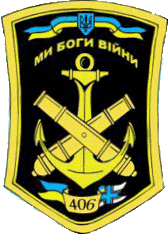 Shoulder Sleeve Insignia of the 406th Artillery Brigade